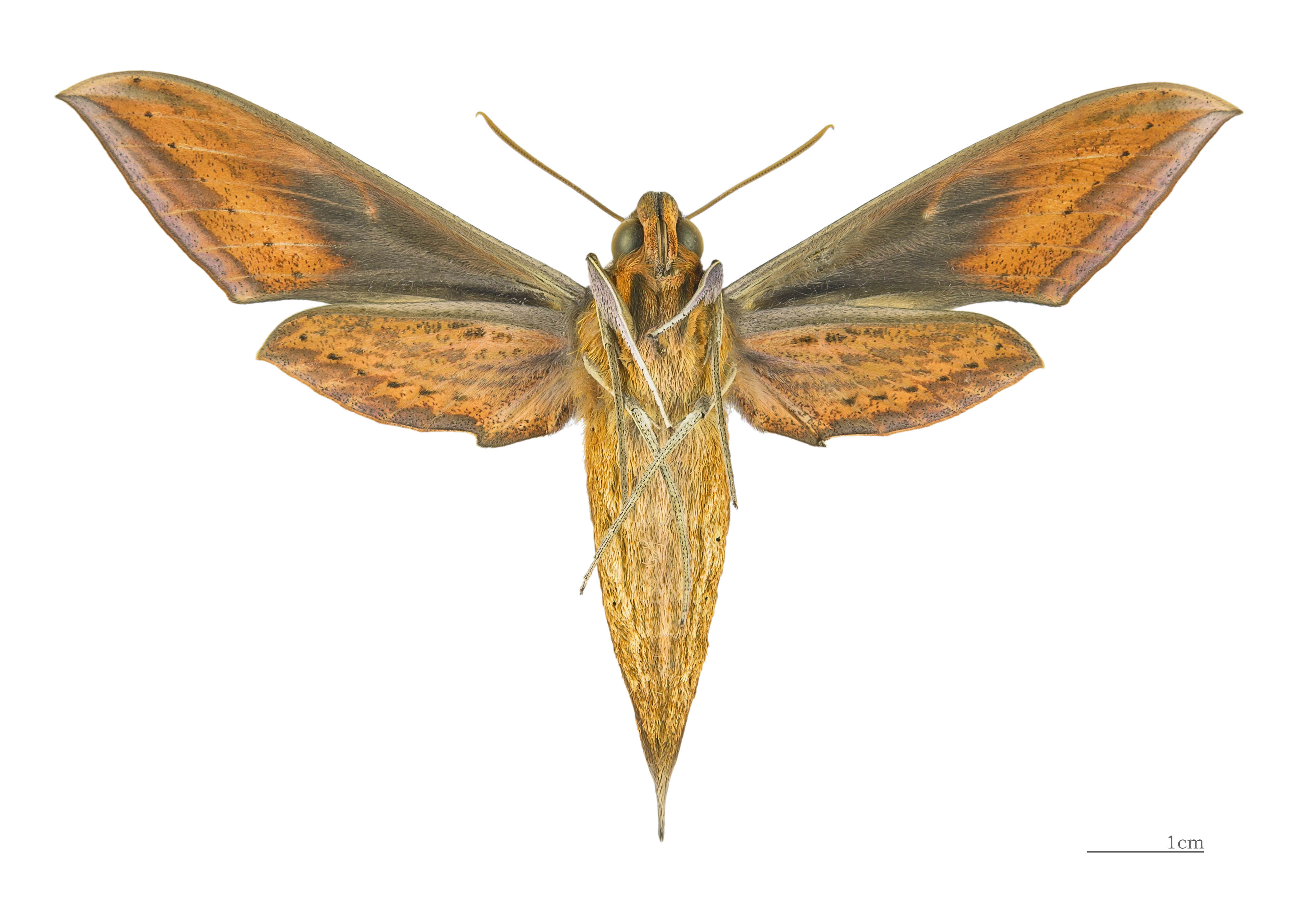 Xylophanes tersa - △ Ventral side